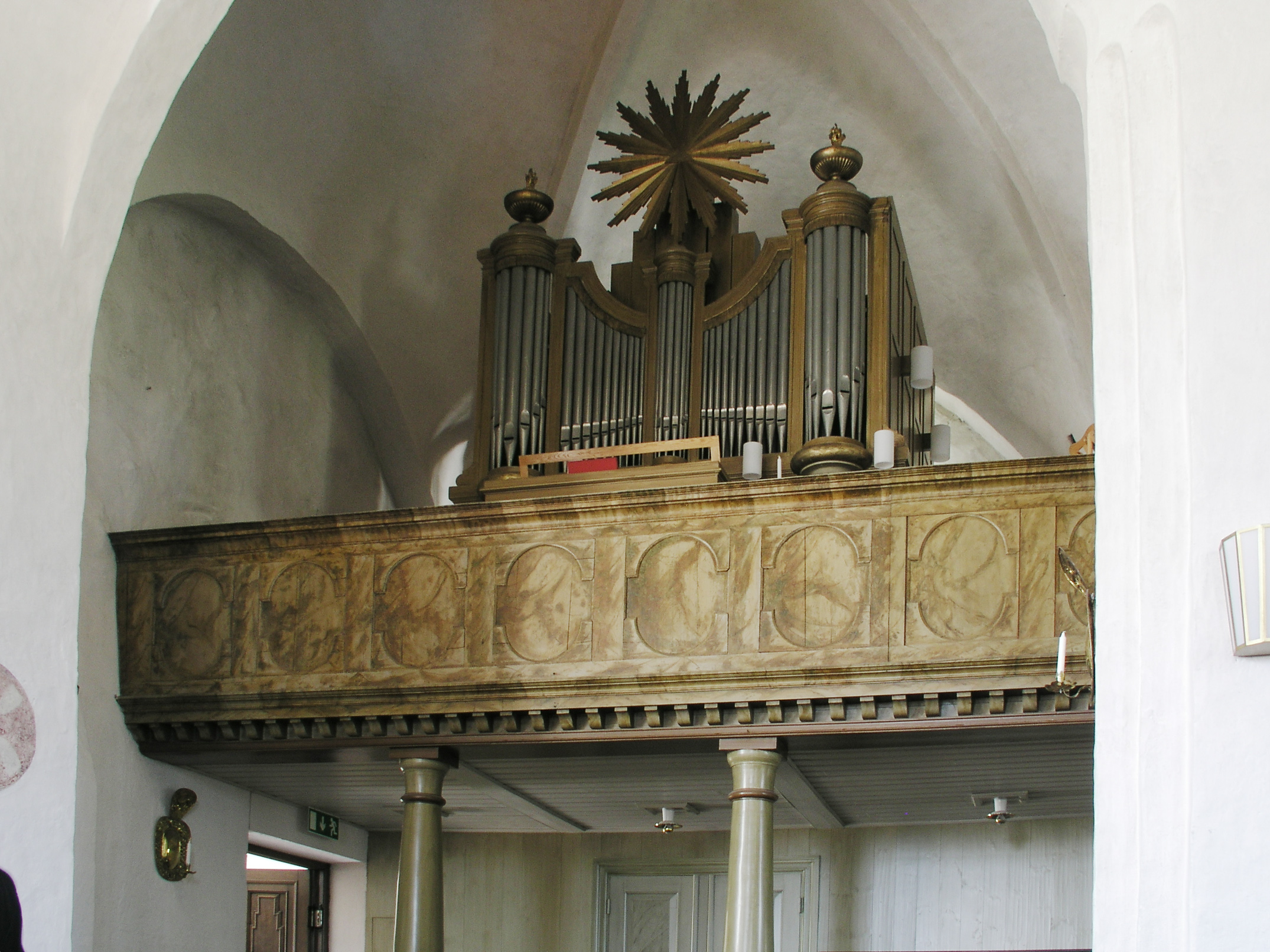 Åker Church, Diocese of Strängnäs, Sweden. The church organ from 1917, organ front/facade from 19th century.